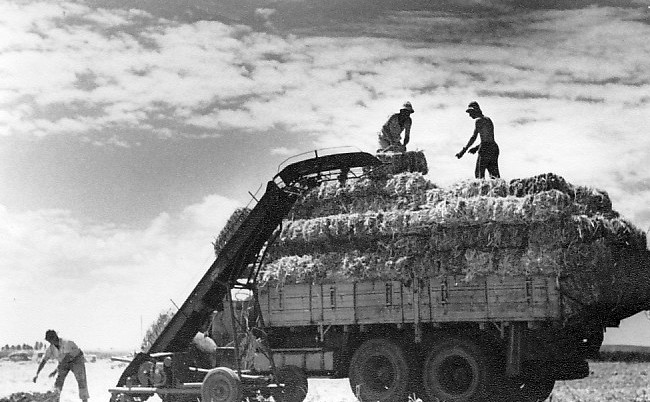 Gan-Shmuel sb12- 7, Agriculture in Israel